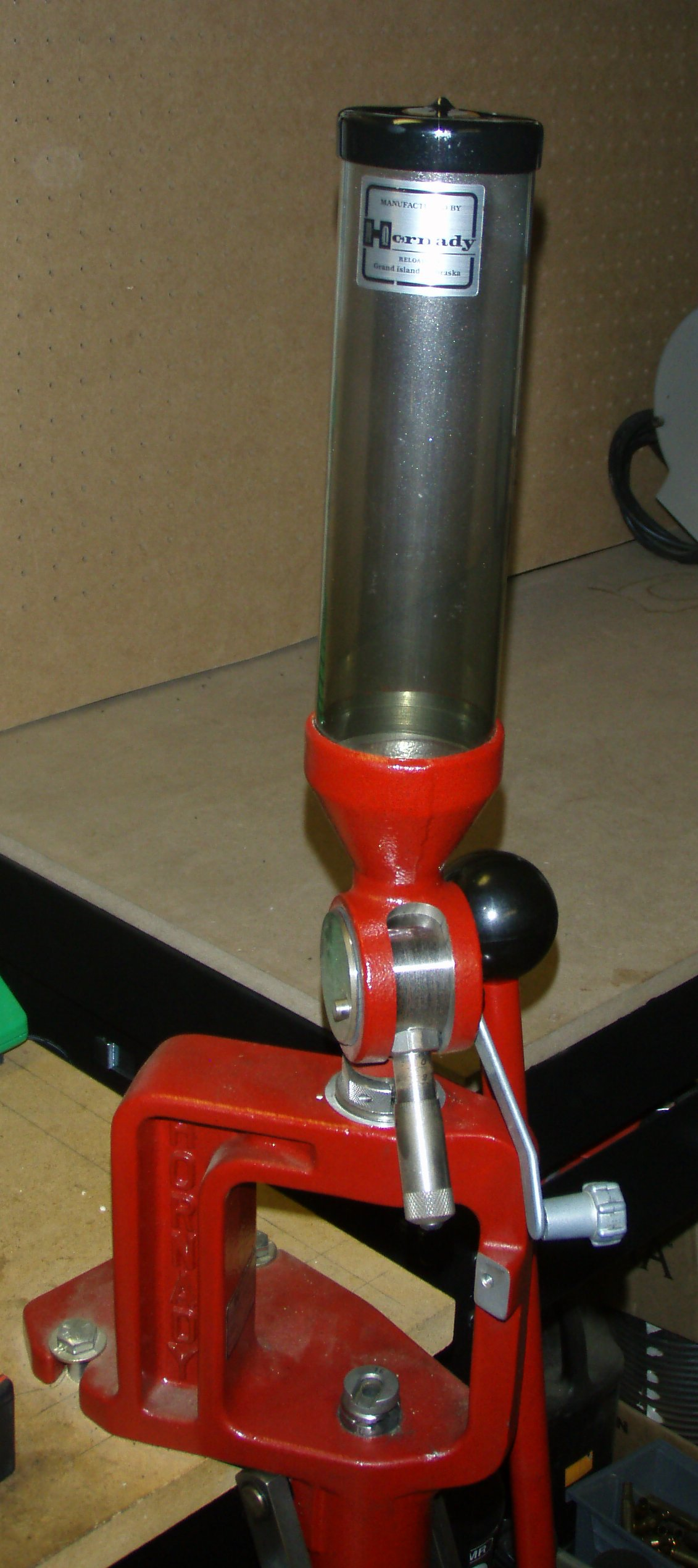 Hornady Powder dispenser for ammunition handloading